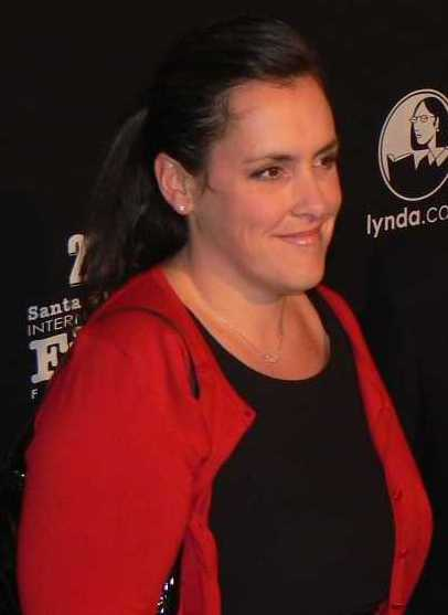 British film producer Emma Thomas at The Santa Barbara Independent SBIFF 2011.